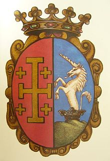 Coat of arms of the Bercsényi family, version from the end of the 17th century.